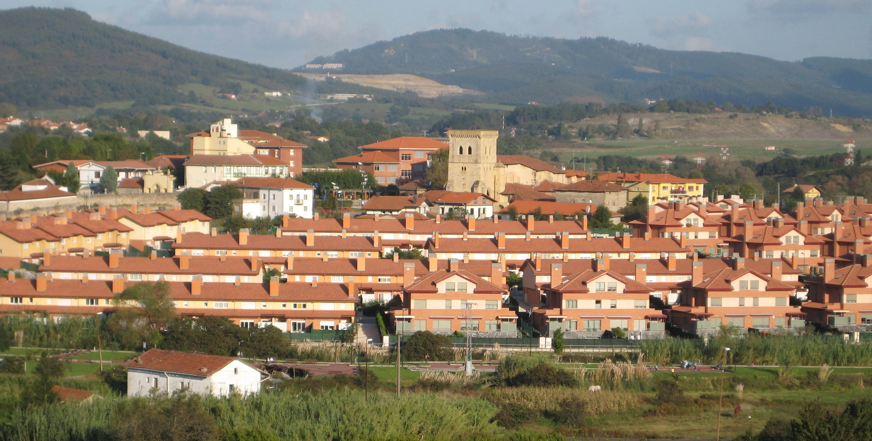 View of Erandio Landa / La Campa, seen from Agarre Road, also in Erandio, Biscay.